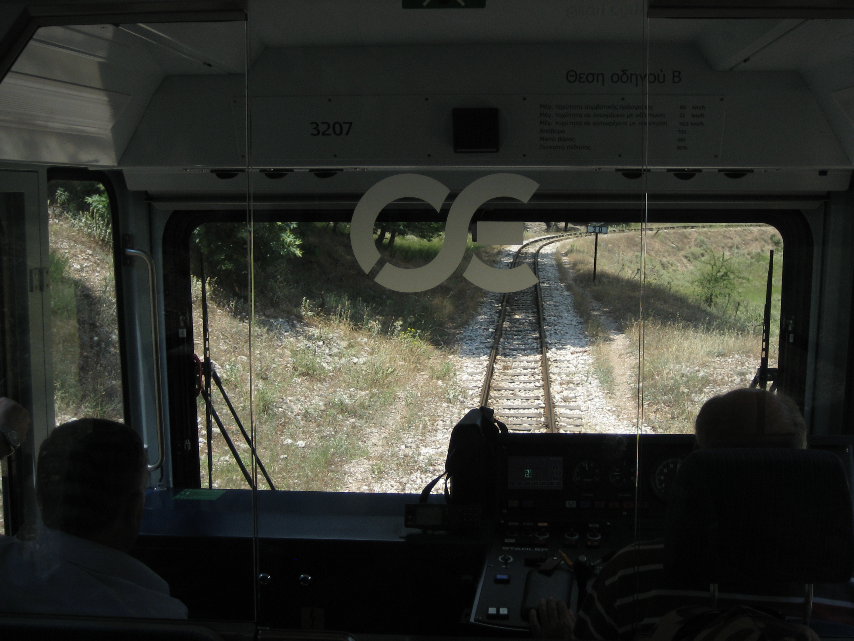 Diakofto-Kalavrita railway, Greece